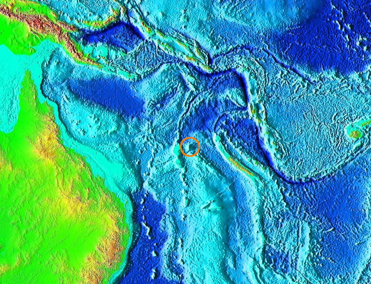 Topographical map showing the location of Sandy Island (New Caledonia).